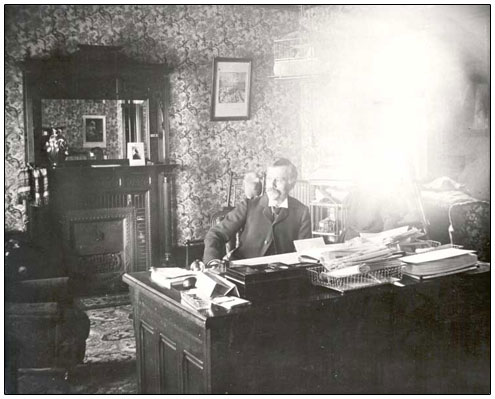 Amédée E. Forget in his office, Government House, 1898. Amédée Emmanuel Marie Forget (November 12, 1847 – June 8, 1923) was a Canadian lawyer, civil servant, and politician. He was the last Lieutenant Governor of the Northwest Territories and the first Lieutenant Governor of the Province of Saskatchewan. At the time of this photo, the capital of the Northwest Territories was in Regina, in the future province of Saskatchewan.